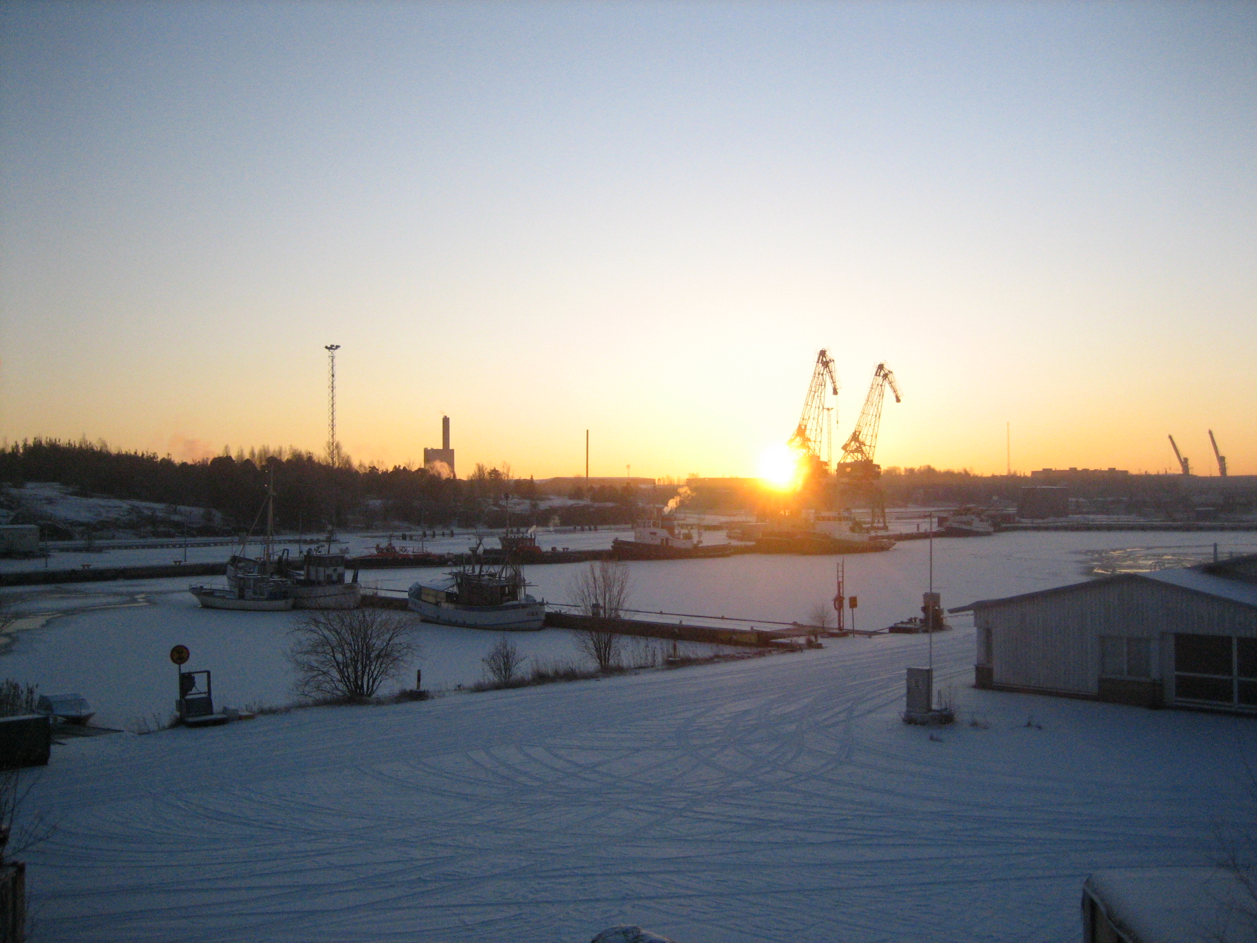 Sunset at the Port of Rauma in Winter 2009. The sun is setting southwest, behind Suoja berth where harbour tugs are berthed.